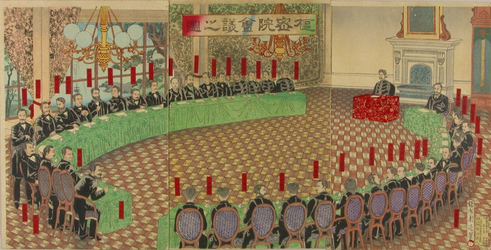 A scene of a meeting of the Privy Council - Sumitsuin Kaigi no zu